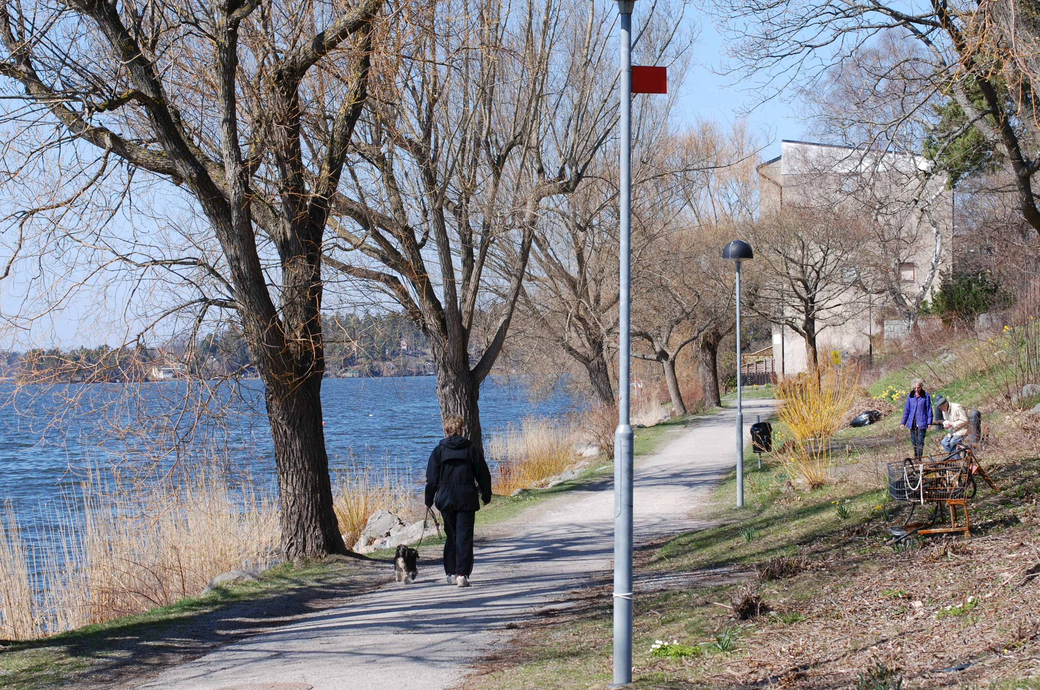 Stockholm suburb Hässelby strand, lake parkway northwestwards